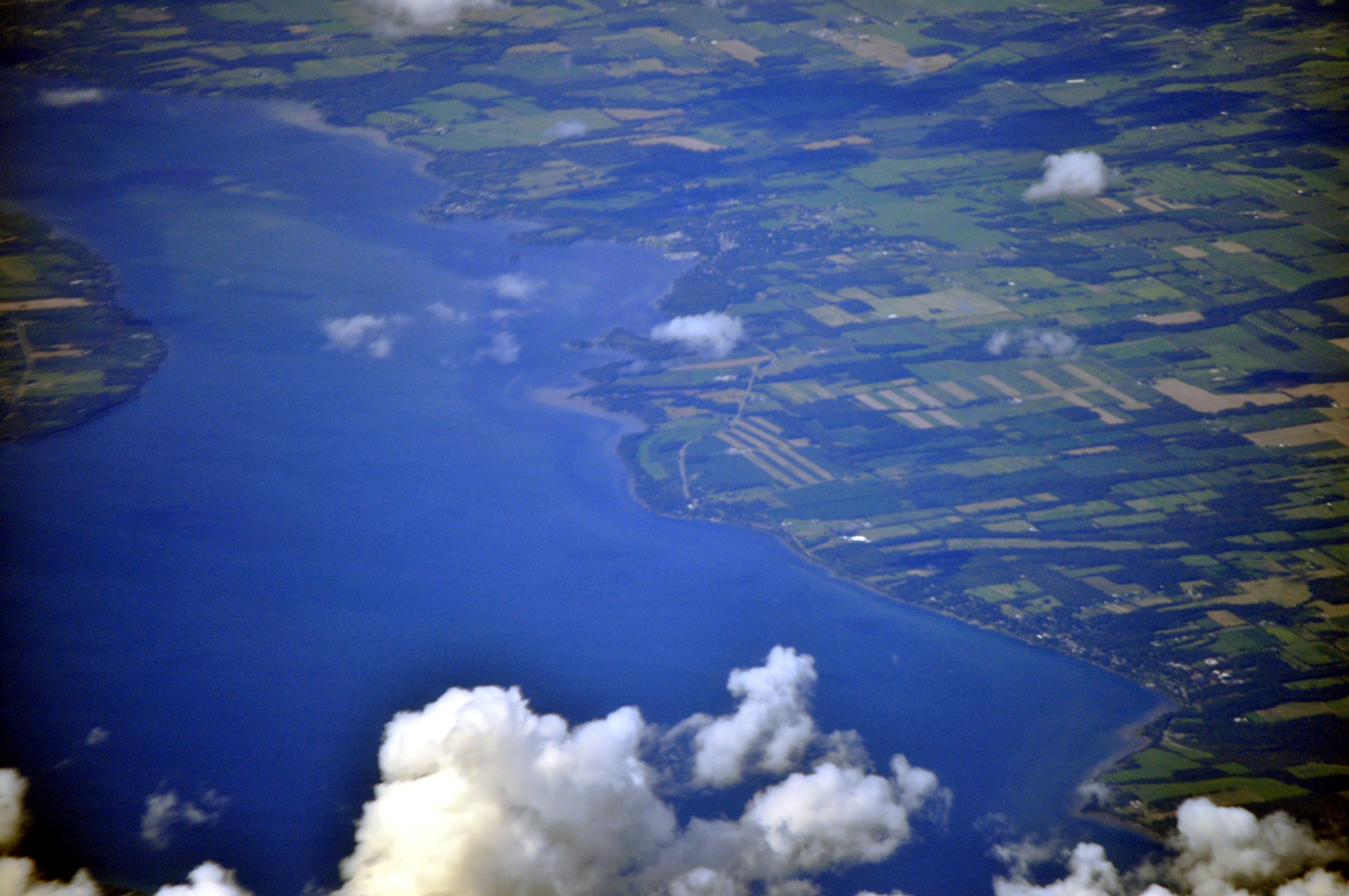 Aerial view of Union Springs and Aurora, Cayuga County, New York on Cayuga Lake, from SSW.